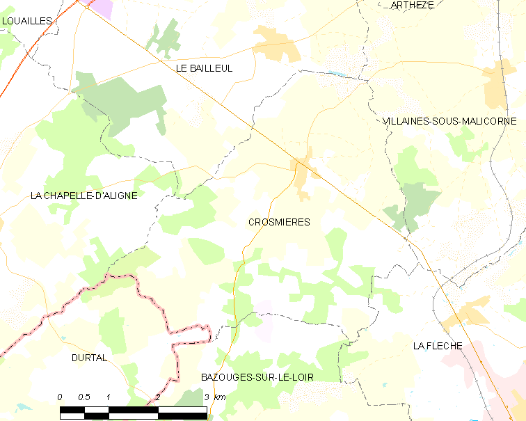 Map of French municipality